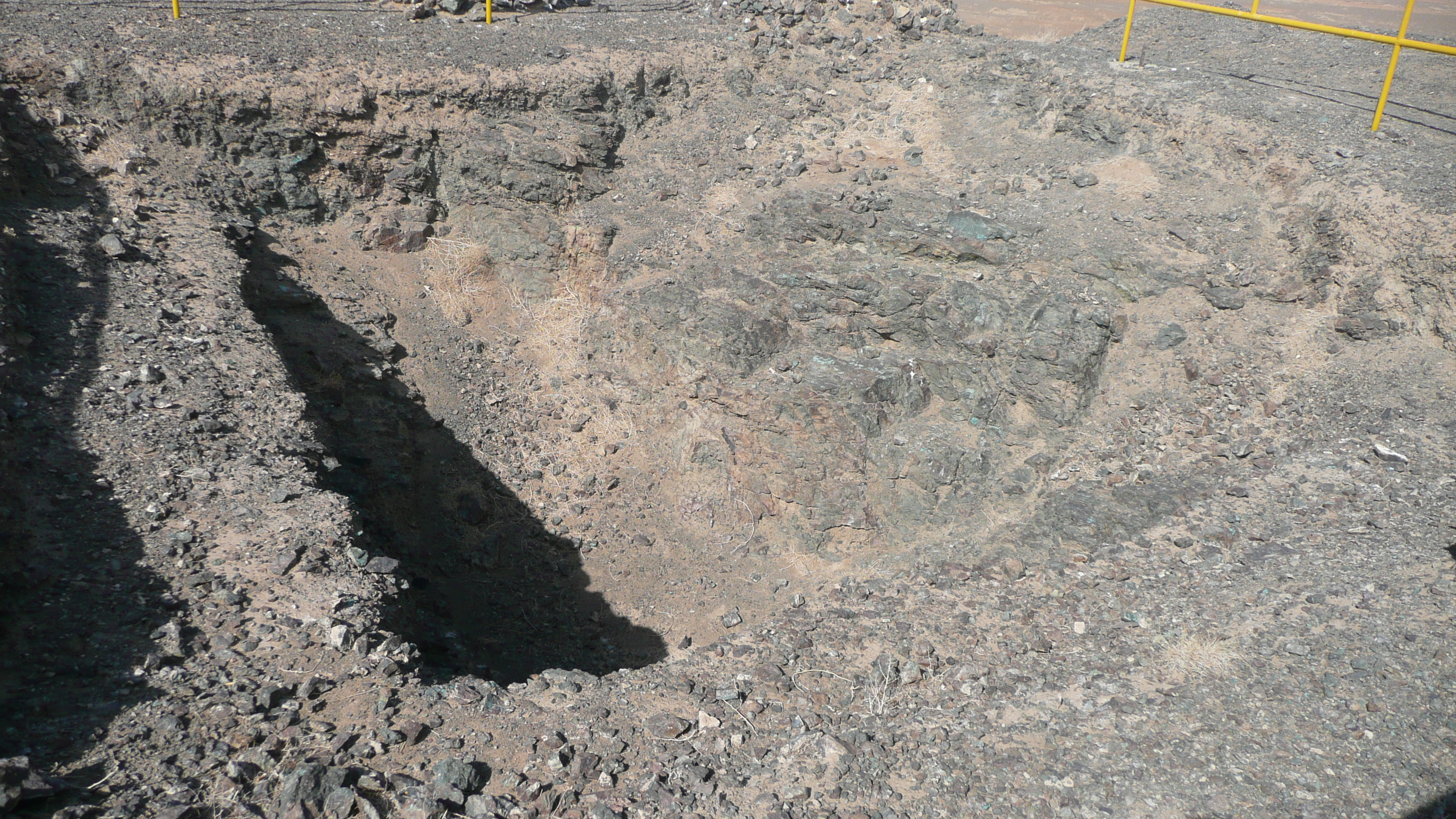 Oyu Tolgoi project - Copper and Gold Mine in South Gobi